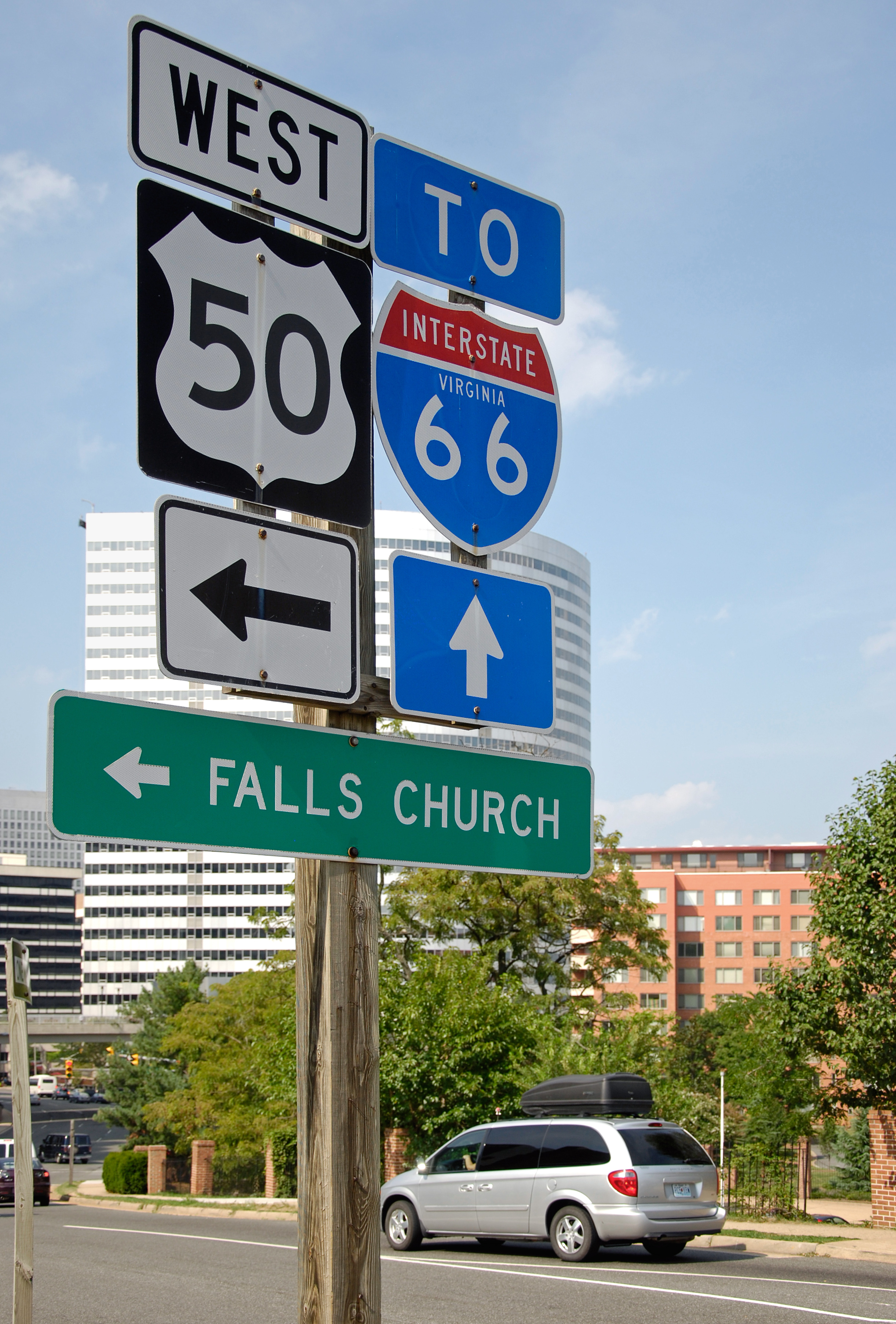 I-66 eastern access direction